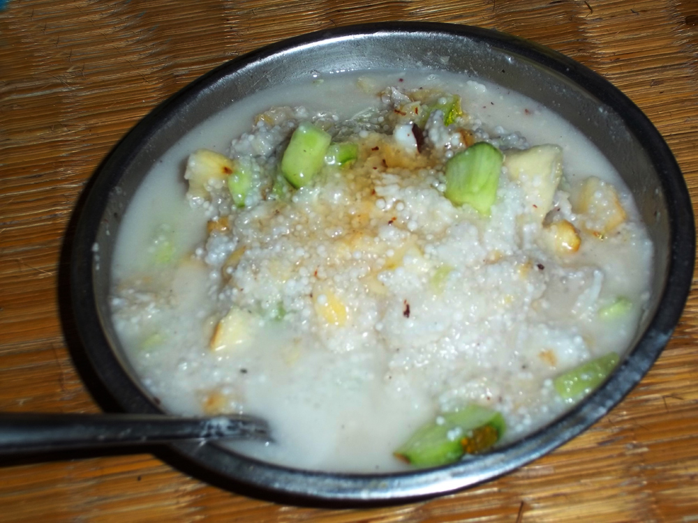 Sagu dana khiri, an Odia dessert.